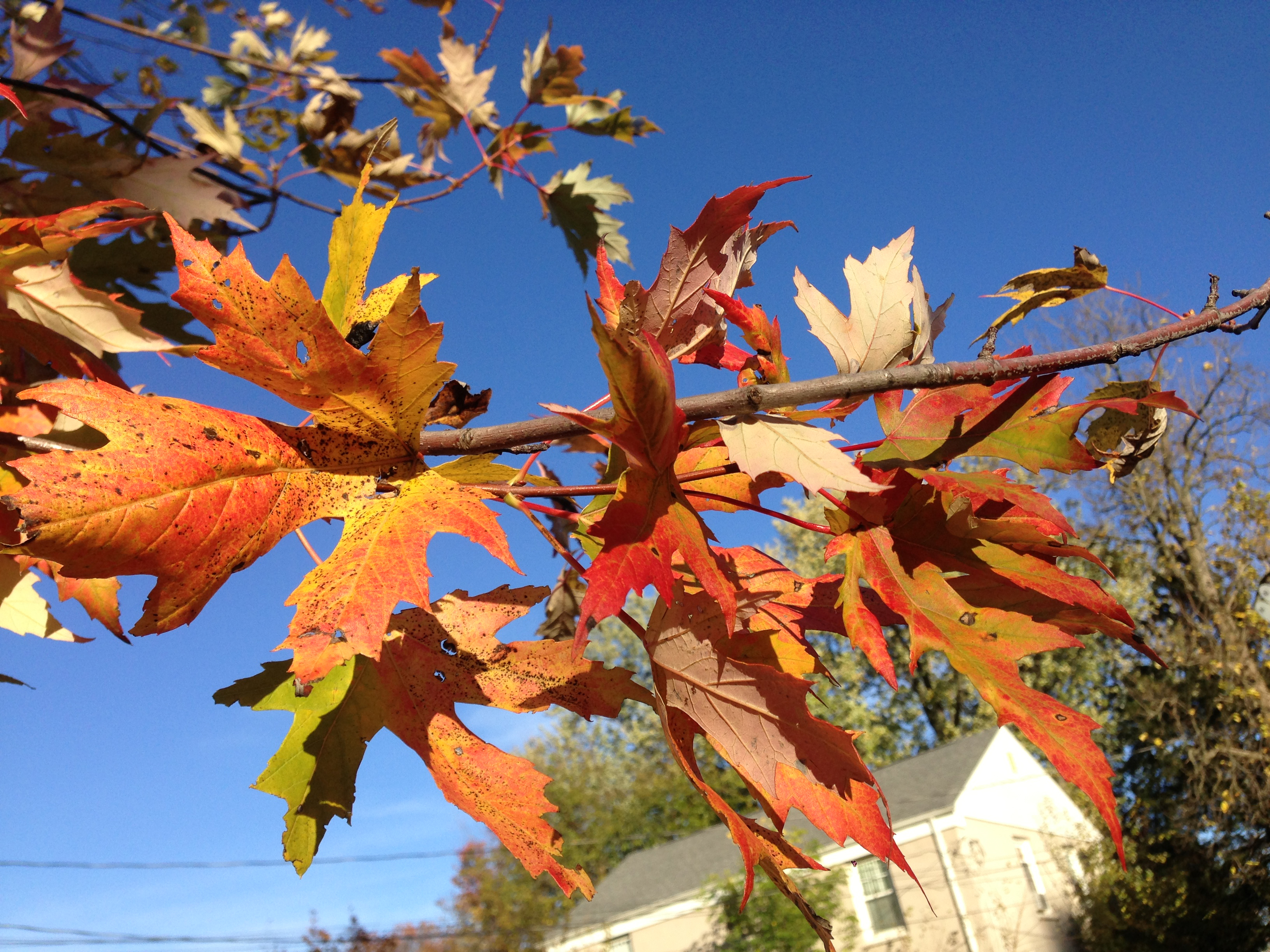 Silver Maple foliage during autumn along Pingree Avenue in Ewing, New Jersey